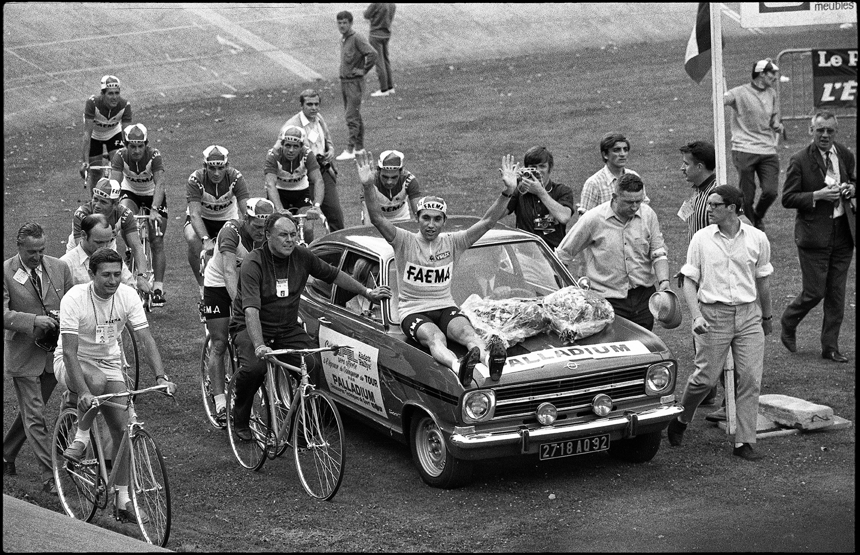 Parc de Vincennes Paris